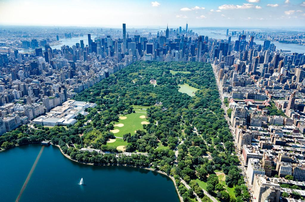 New York, N.Y., Jul. 21, 2017--The New Jersey Army National Guard (NJANG) Aviation Program has generously offered their support to conduct an aerial view/survey of the Gotham Shield Exercise covering the New York / New Jersey area. FEMA Region II and NYCEM personnel were among those who took part in the flights. The overall objective is to gain increased training knowledge and experience from an ‘outside-in’ approach and to improve our national capacity to build, sustain, and deliver core capabilities. FEMA/K.C.Wilsey